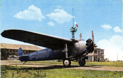 Commemorative postcard showing Japan Air Transport (JAT) Nakajima Ki-6 transport